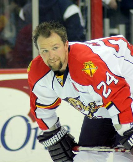 #24 Bryan McCabe, Florida Panthers